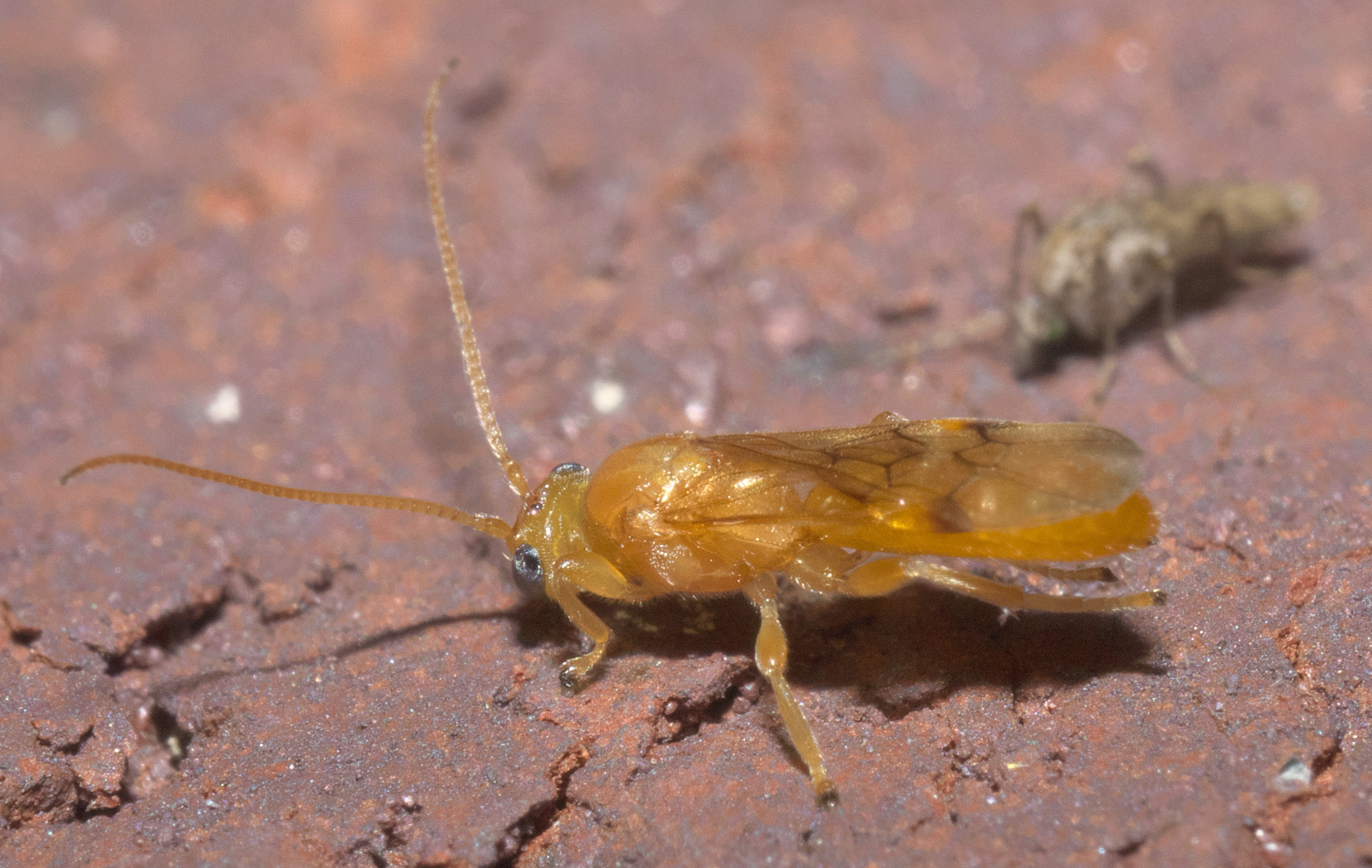 Yelicones delicatus, Family: Braconid Wasps, ID Confidence: 98